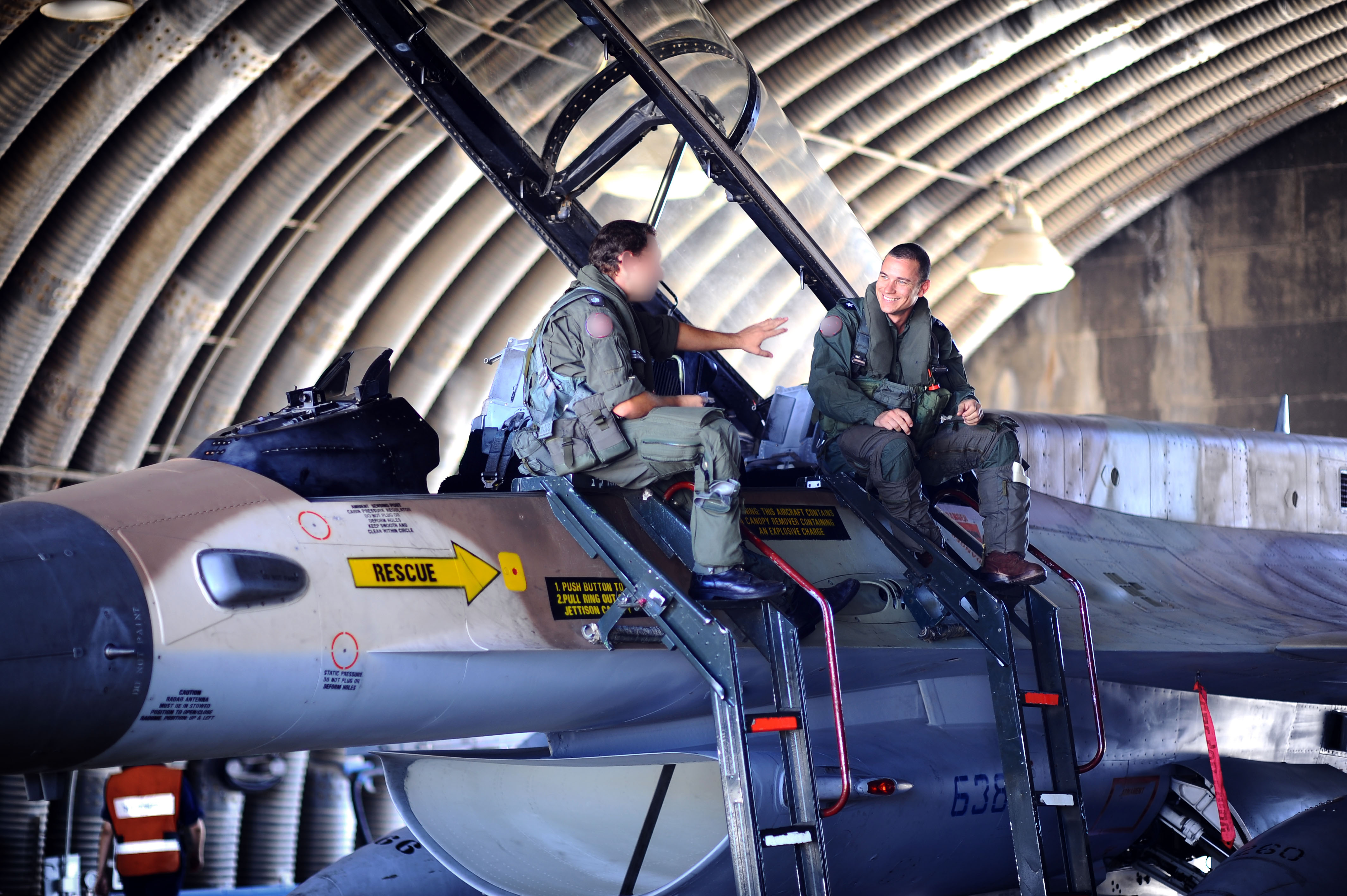 August 8, 2012 Pilots practice landing and take-off techniques at Nevatim Airbase. Photo: Ori Shifrin, IDF Spokesperson's Unit The Israel Defense Forces Facebook • blog • Twitter